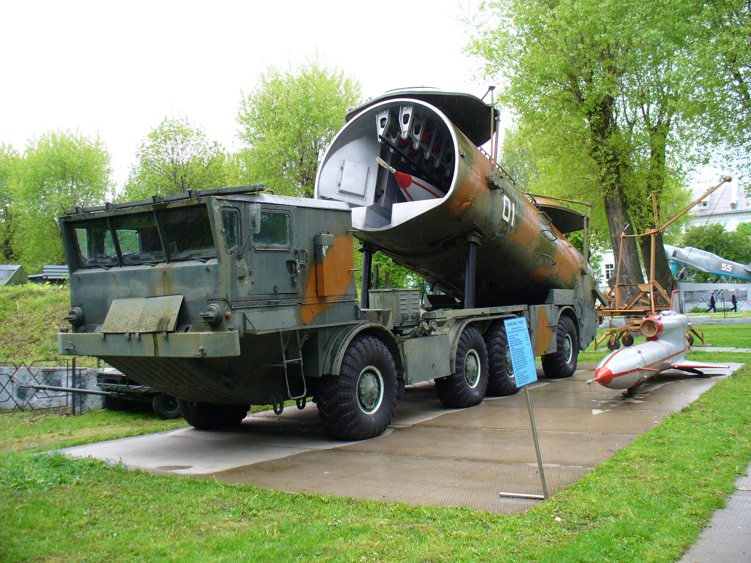 The Tupolev Tu-143 Reys, Soviet reconnaissance drone (UAV) with SPU-143 launcher, and crane, a lifting machine for Tu-143 UAV. Ukrainian Air Force Museum in Vinnitsa.